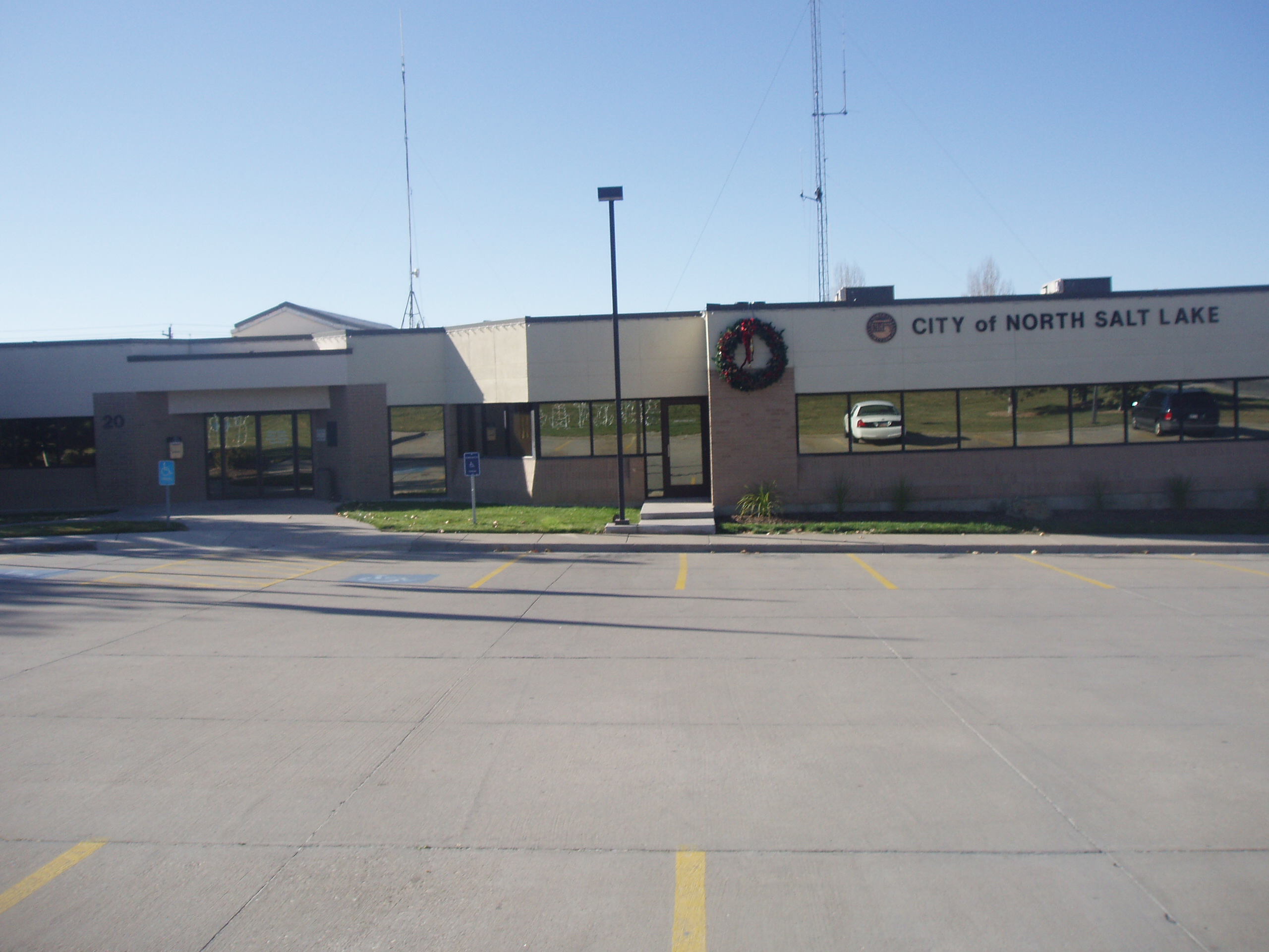 North Salt Lake City Hall, North Salt Lake, Utah, United States.